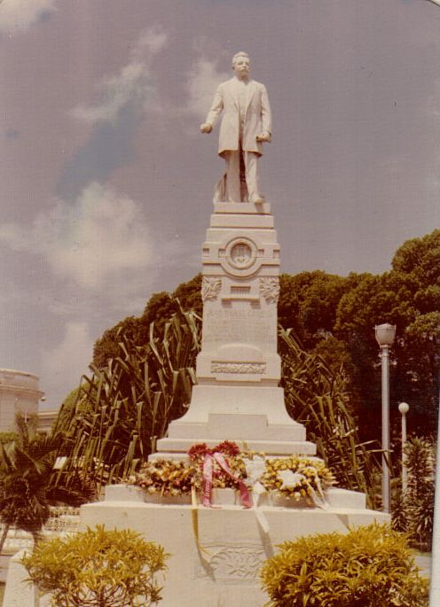 Picture of Statue of Juan Morel Campos - 1977